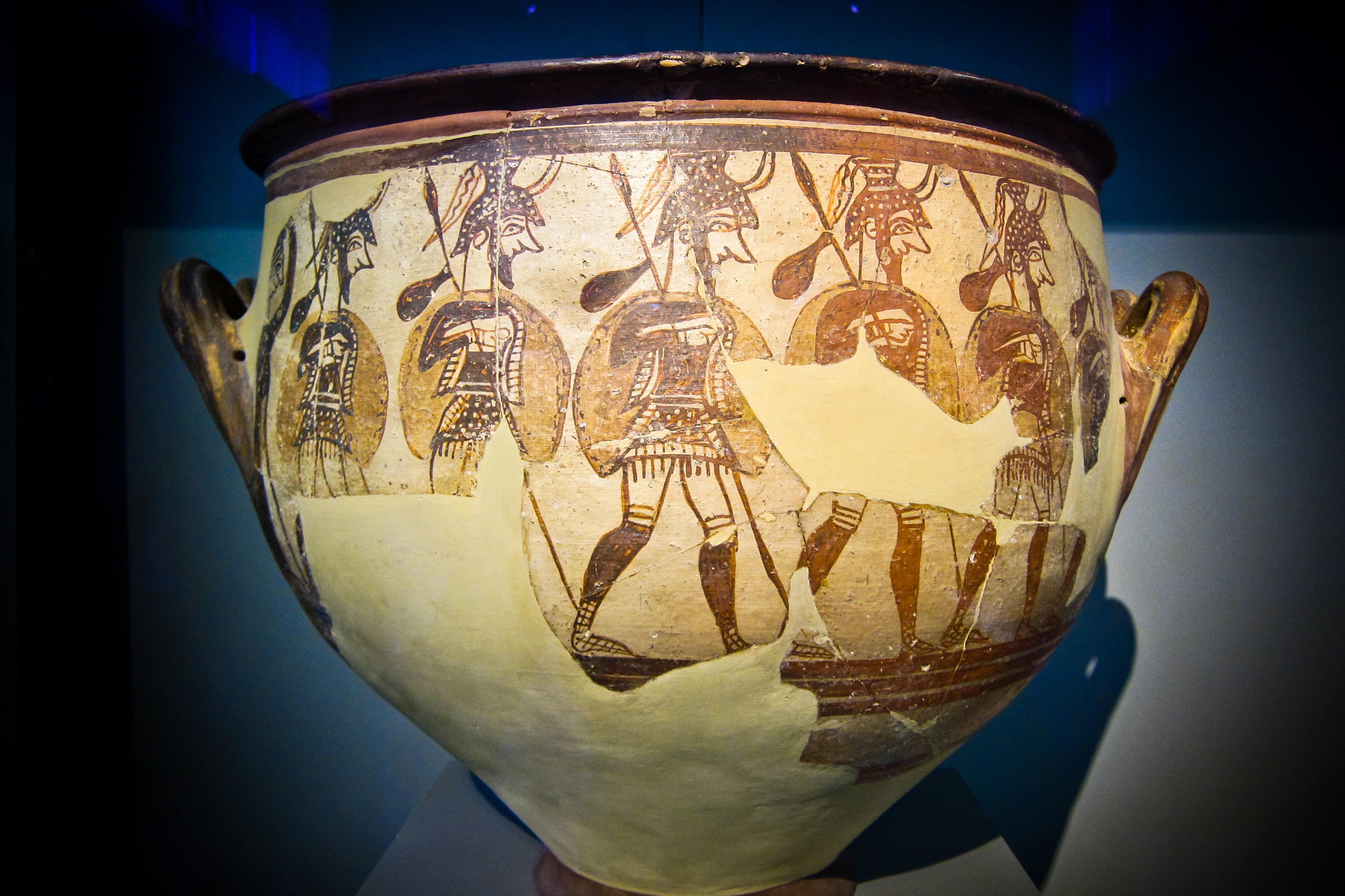 Photo of the Warrior Vase by Sharon Mollerus